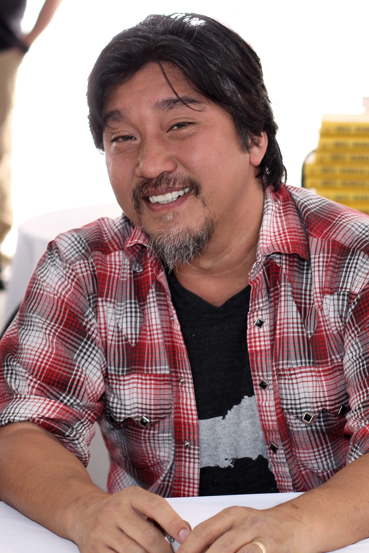 Chef Edward Lee at the 2018 Texas Book Festival in Austin, Texas, United States.